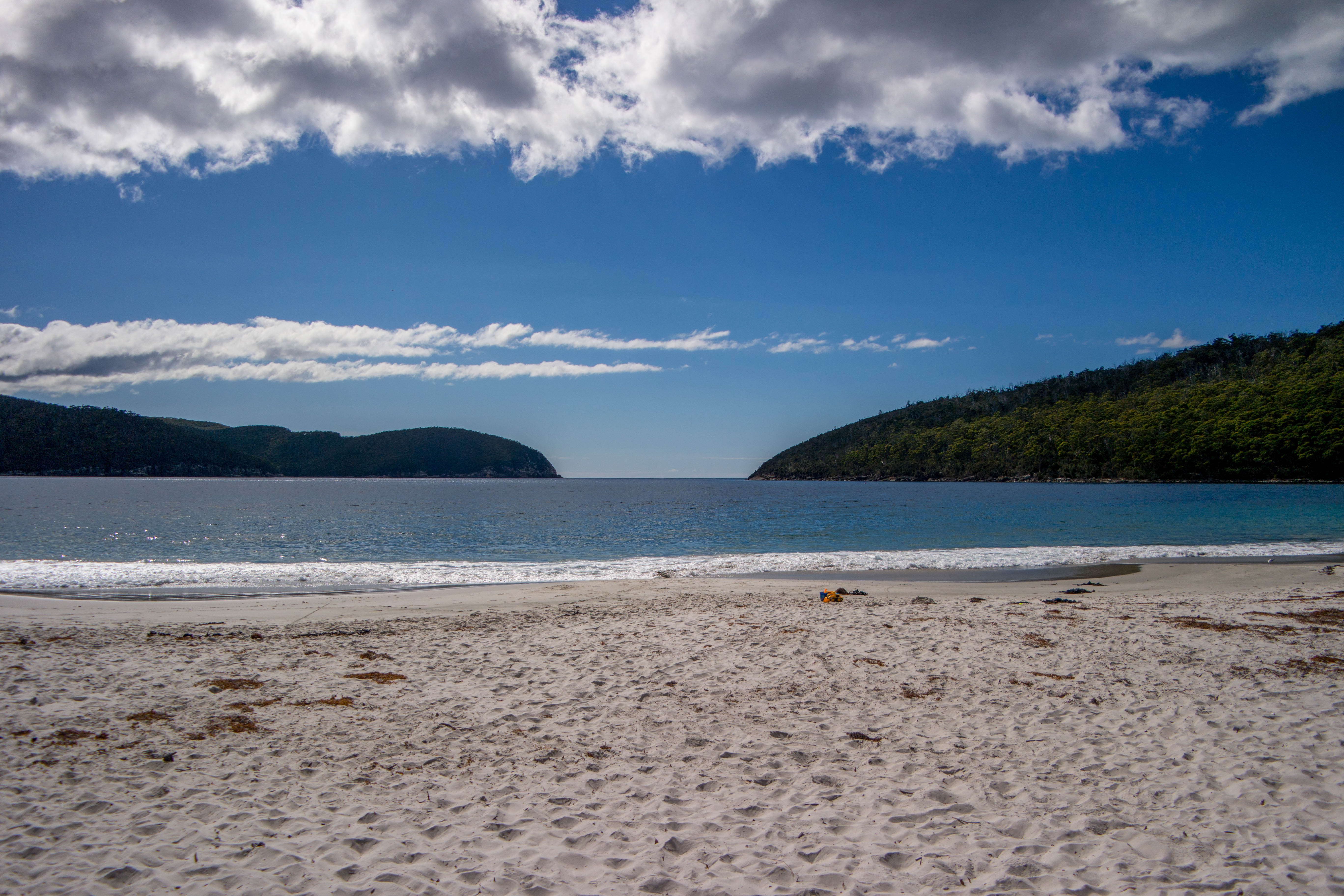 The beach at Fortescue Bay in Fortescue National Park